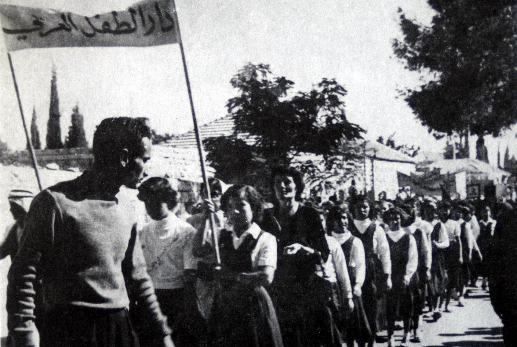 Hind al Husseini with marching schoolgirls. Jerusalem, Palestine, 1936.